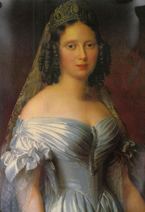 sophie of wurttemberg queen of the netherlands